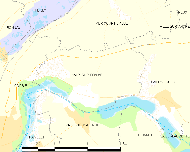 Map of French municipality Vaux-sur-Somme